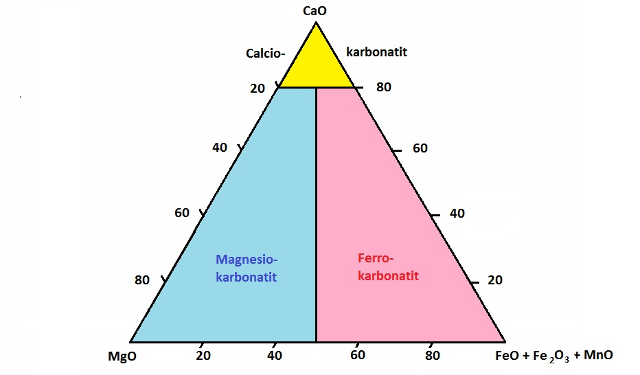 Classification diagram of the carbonatites in weight percent, redrawn after A. R. Woolley (1989).